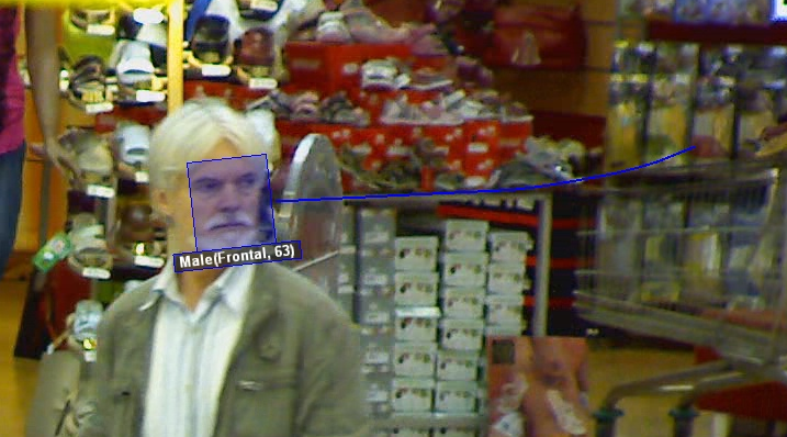 The age and gender recognizer software VisiScanner in work.